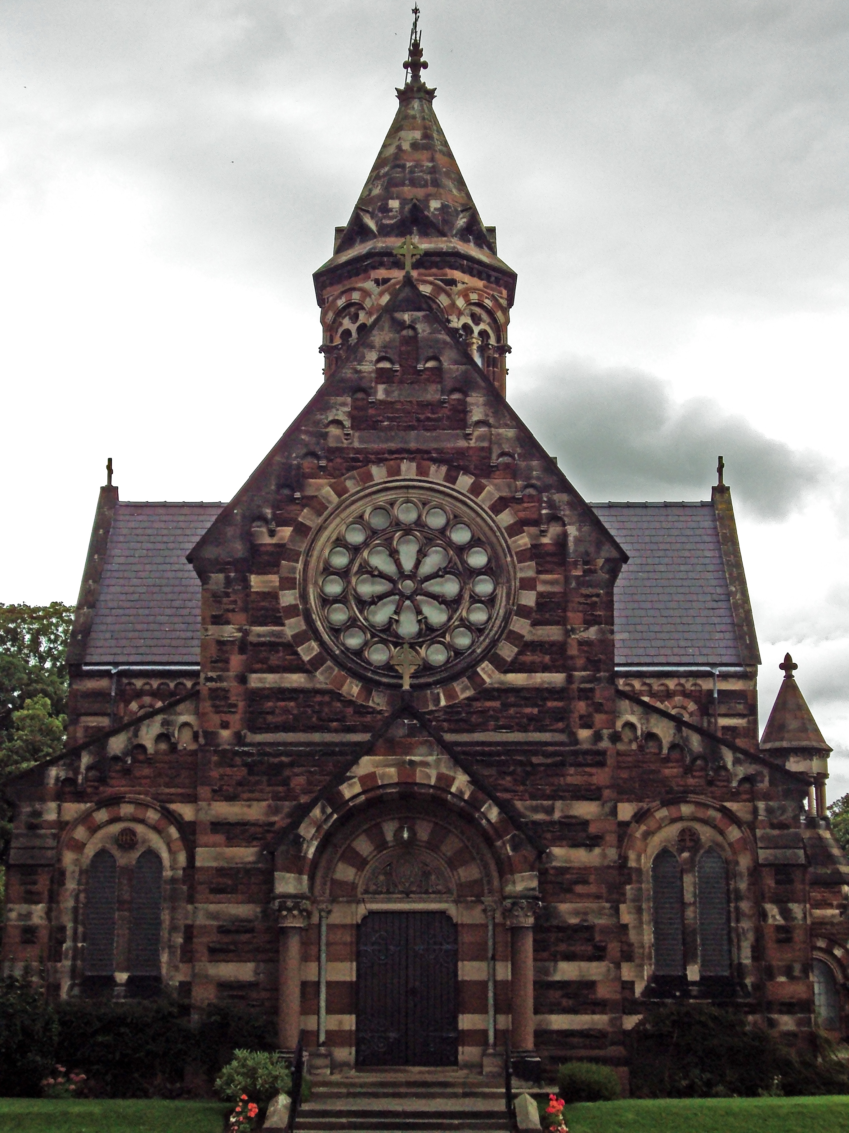 St. Paul's Church on the A41 near Little Sutton, Wirral, Cheshire, England.